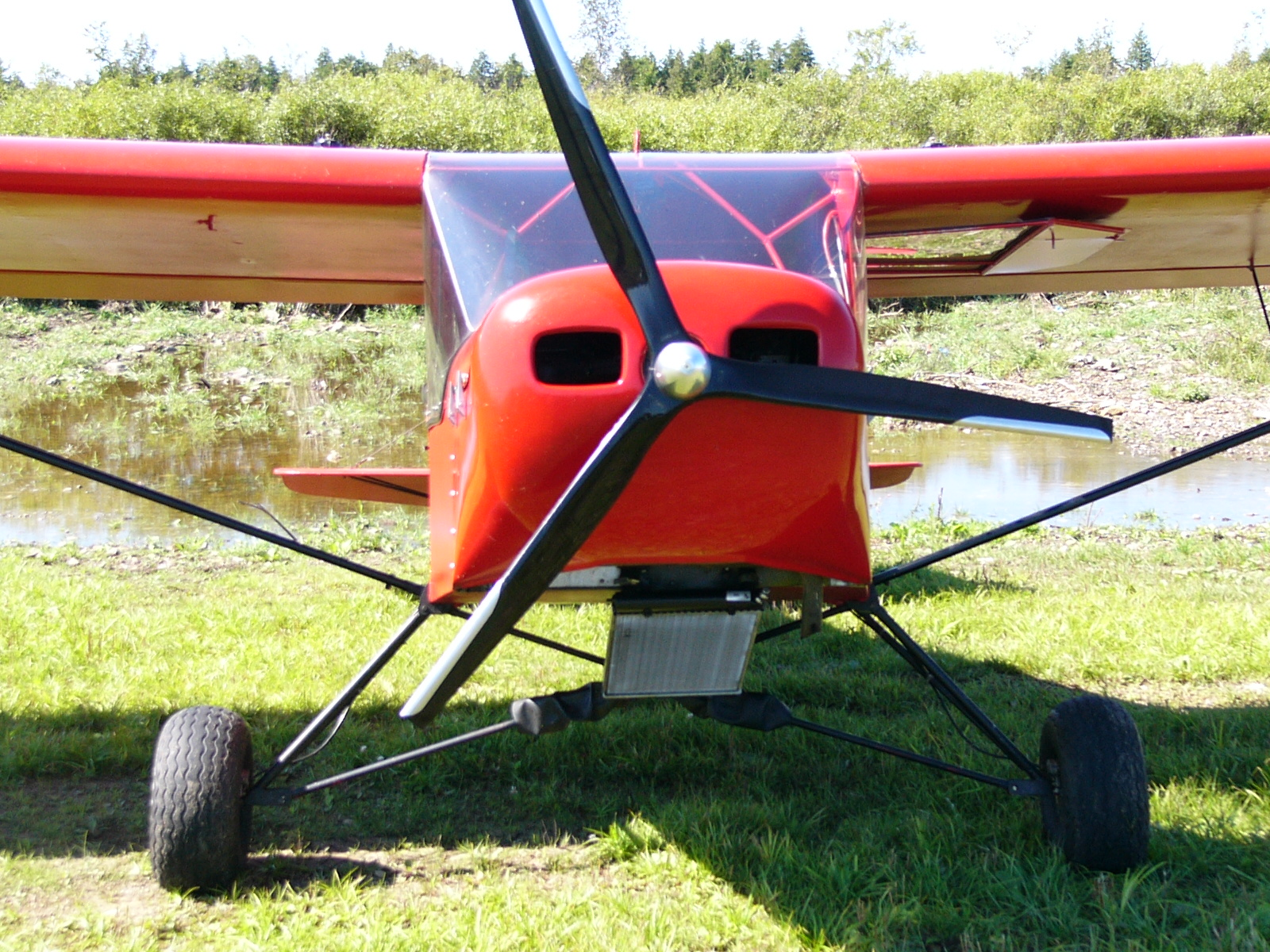 L'il Hustler Aviation L'il Buzzard at Carleton Place Fly-in, Carleton Place Airport, Ontario, Canada.